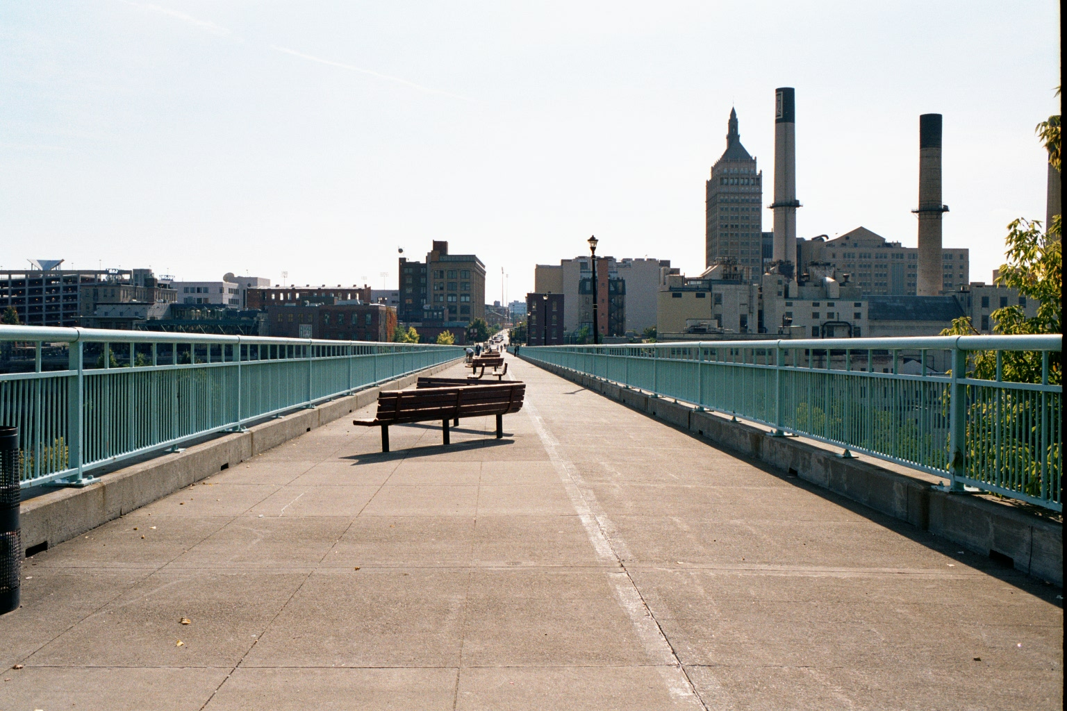 View along the Pont de Rennes, looking west.